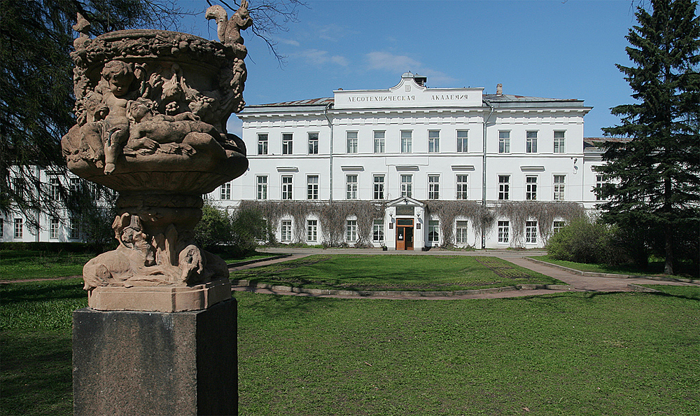 Main building of Saint-Petersburg State Forestry Academy